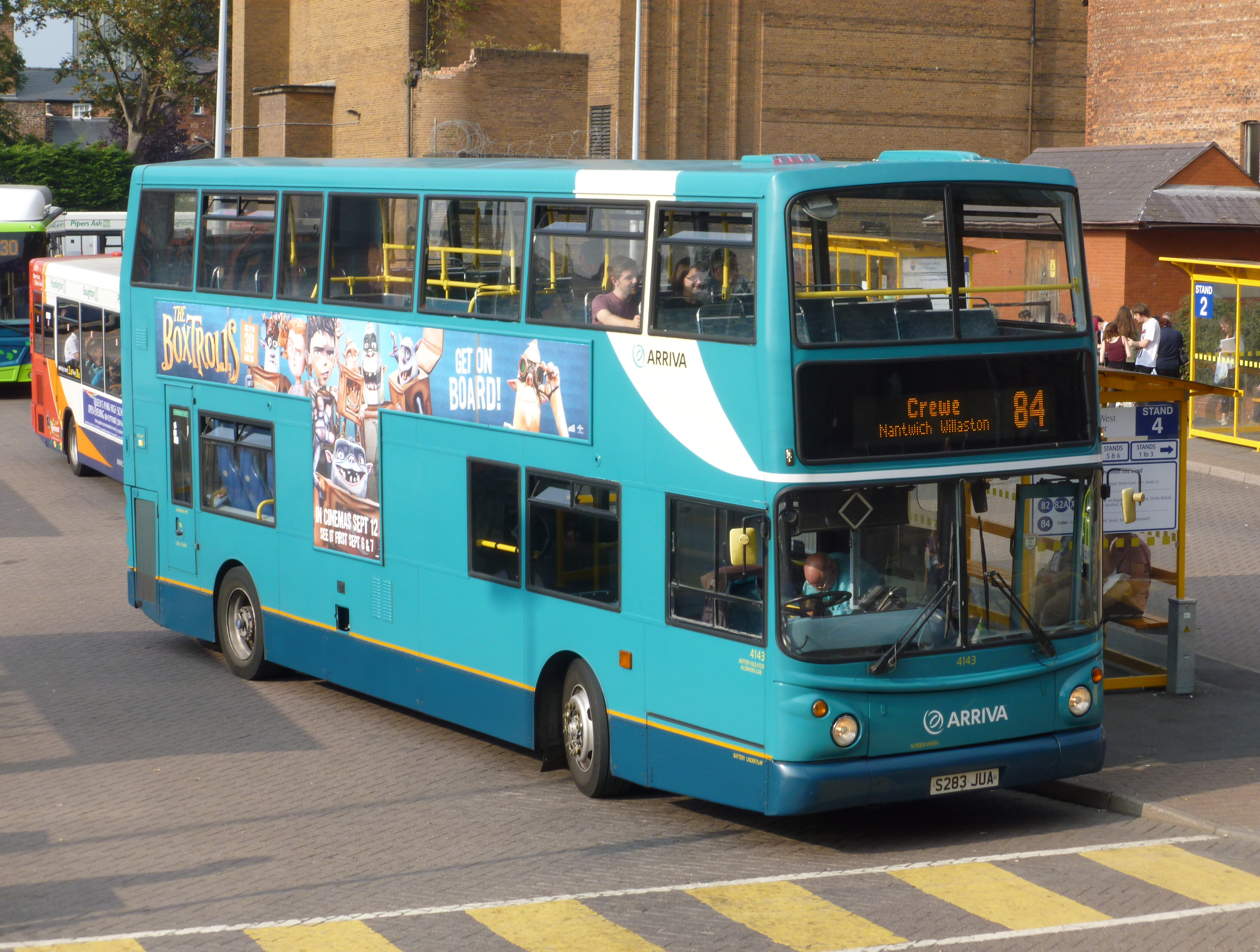 Arriva North West double-decker 4143, S283 JUA, a DAF DB250 with Alexander ALX400 bodywork that was new to Arriva London as a member of the DLA class. Pictured in Chester Bus Station awaiting departure to Crewe on route 84.